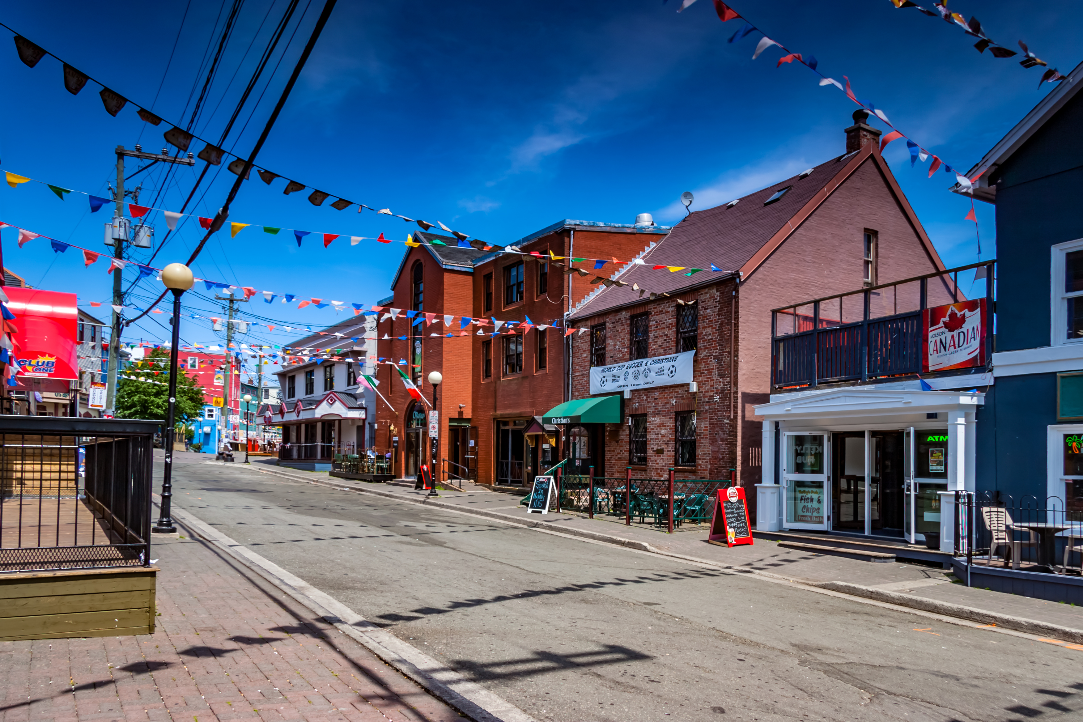 George Street. Restaurants and bars. Centre town. St. John's (/ˌseɪntˈdʒɒnz/, local /ˌseɪntˈdʒɑːnz/) is the capital and largest city in Newfoundland and Labrador, Canada. St. John's was incorporated as a city in 1888, yet is considered by some to be the oldest English-founded city in North America.[8] It is located on the eastern tip of the Avalon Peninsula on the island of Newfoundland.